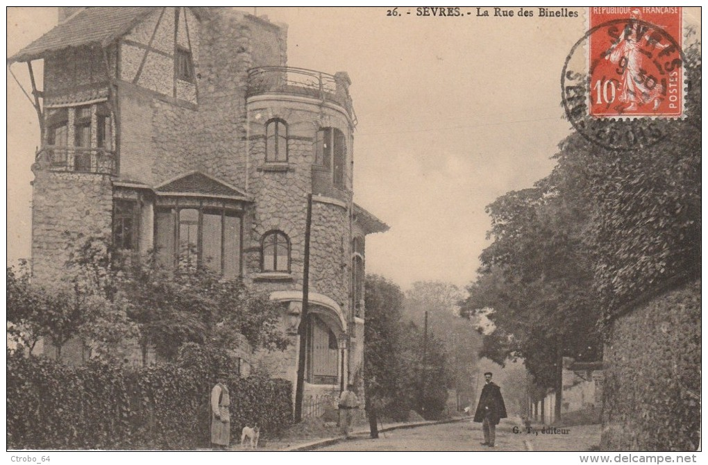 Castel Henriette, in Sèvres, designed by Hector Guimard, in a 1914 postcard